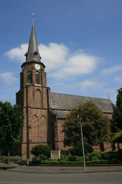 Cultural heritage monument No. 291 in Erkelenz